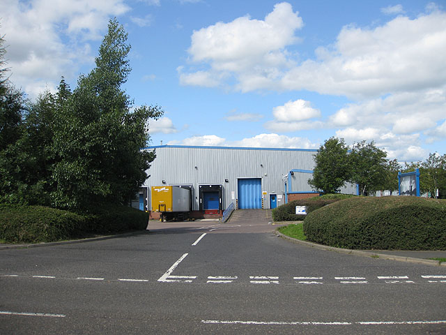 Entrance to the Phileas Fogg Factory The brand is now owned by one of the big giants in snack production.